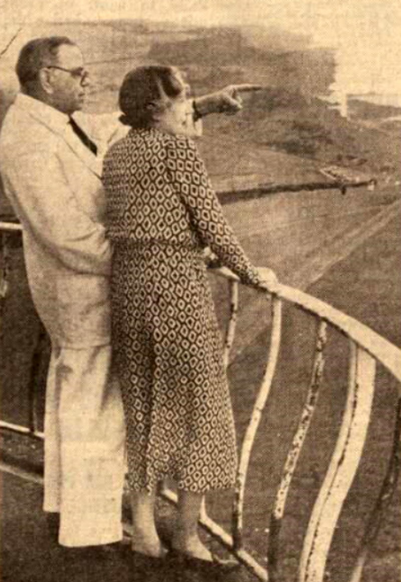 Sir James and Lady Purves Stewart at their home Belle Tout Lighthouse